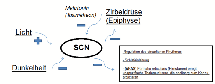 mechanism of action of tasimelteon